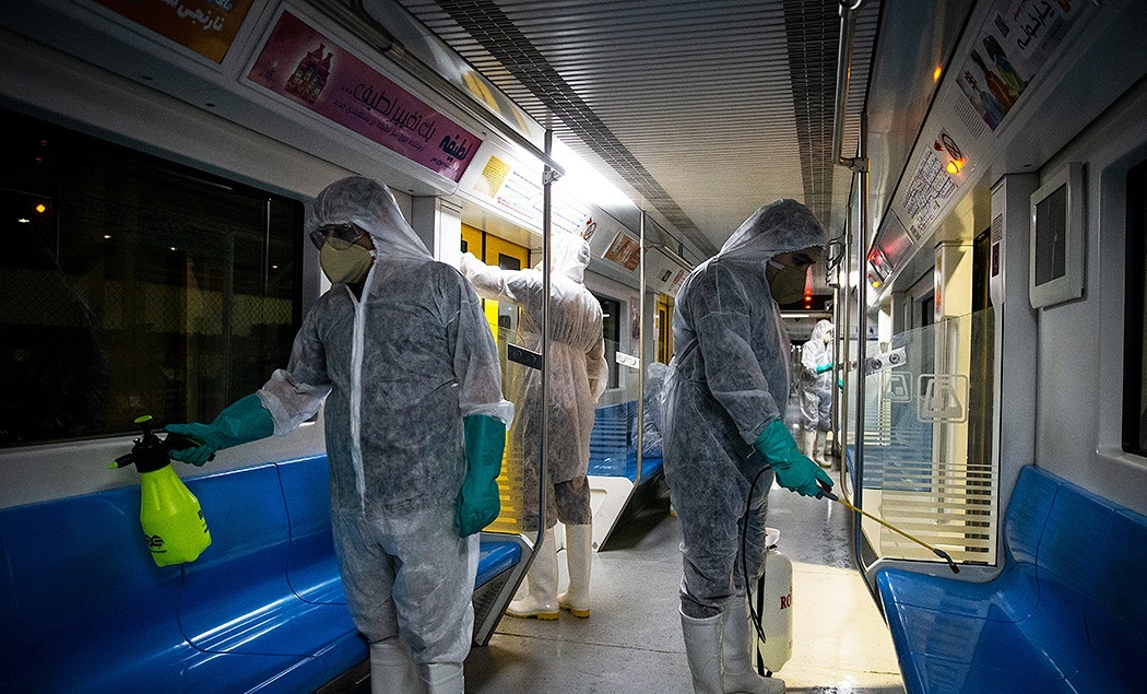 workers disinfect Tehran subway wagons against coronavirus